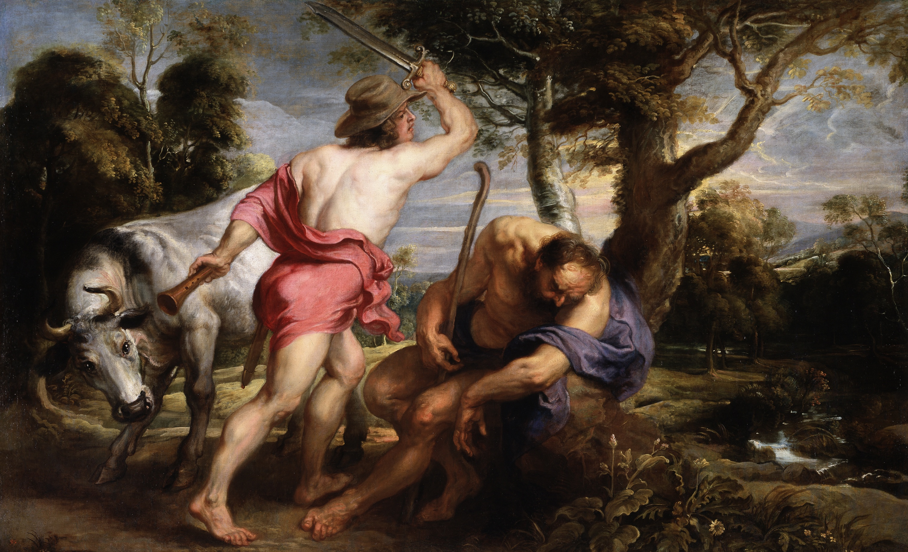 Mercury and Argos